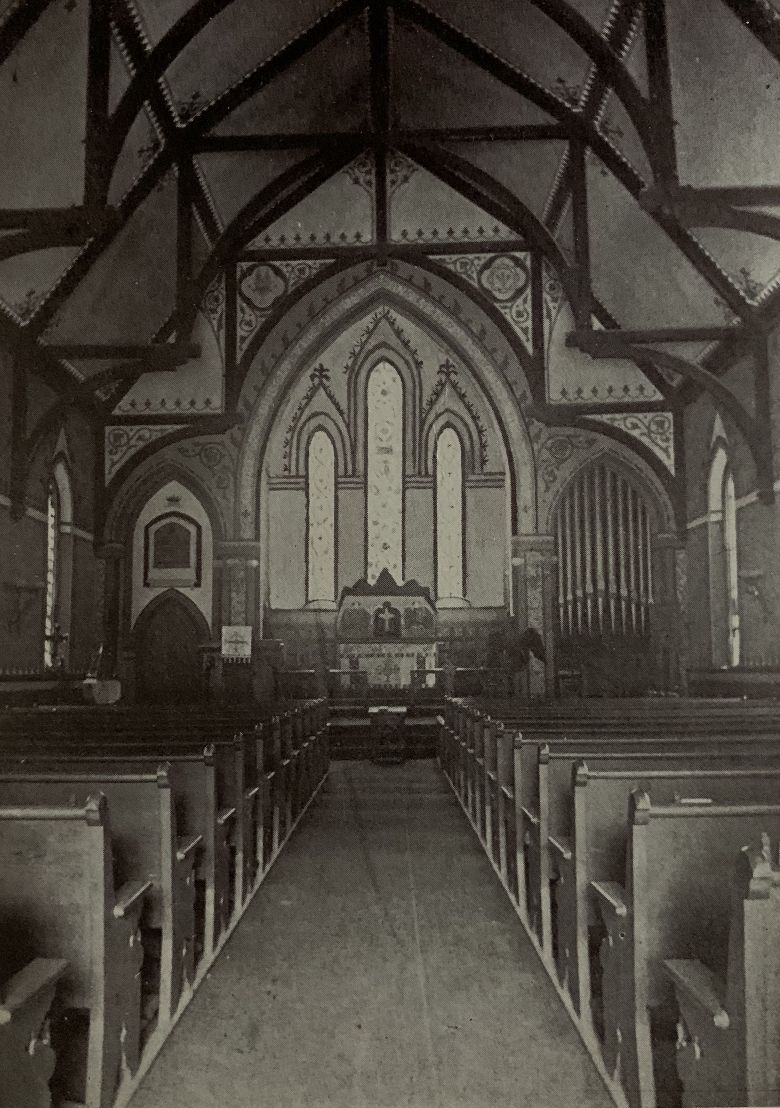 Photograph of the interior of the nave, looking eastward, of The (Episcopal) Church of the Nativity, c. 1866.